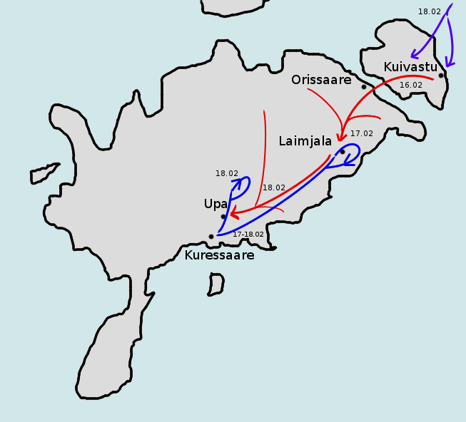 Saaremaa rebellion 1919